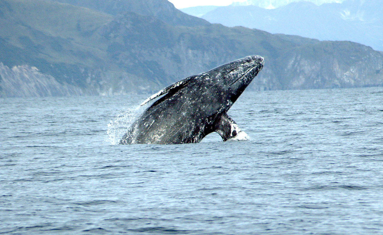 Gray whale (Eschrichtius robustus) breaching. (The original image has been cropped.)